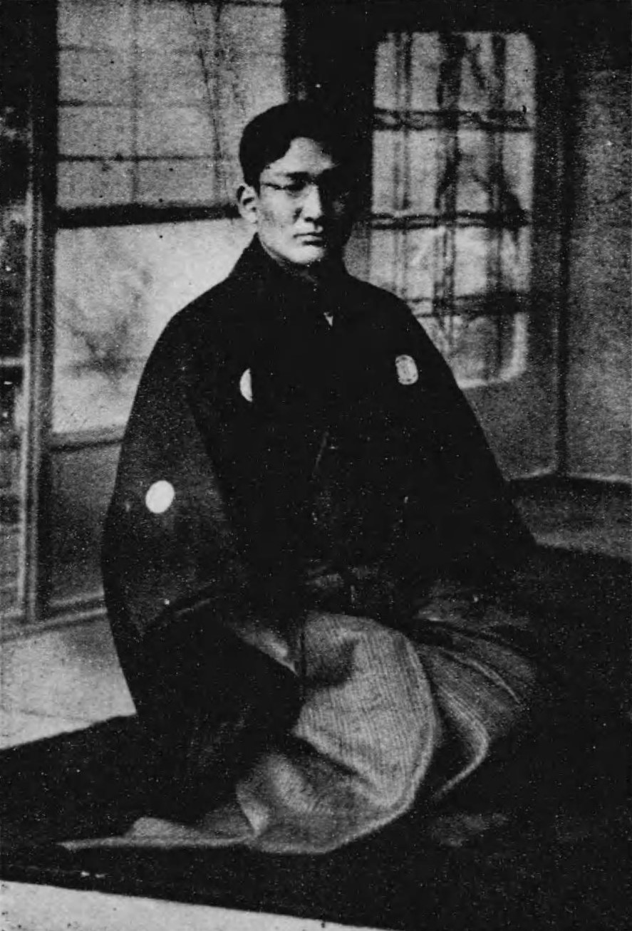 Hotta Sutejirō, a Kendōka from Japan.